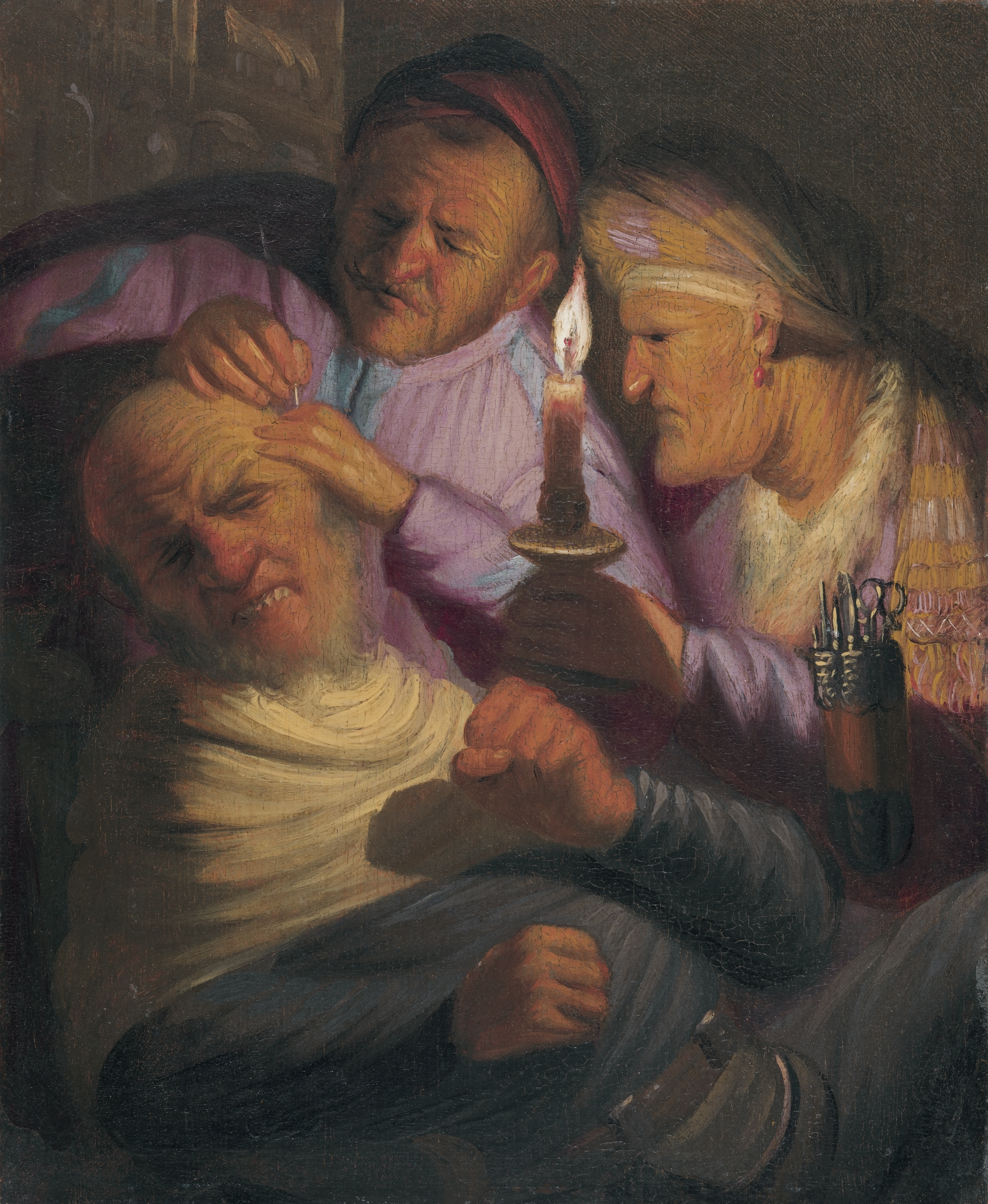 Touch oil on panel 21,5 x 17,7 cm 1624 - 1625